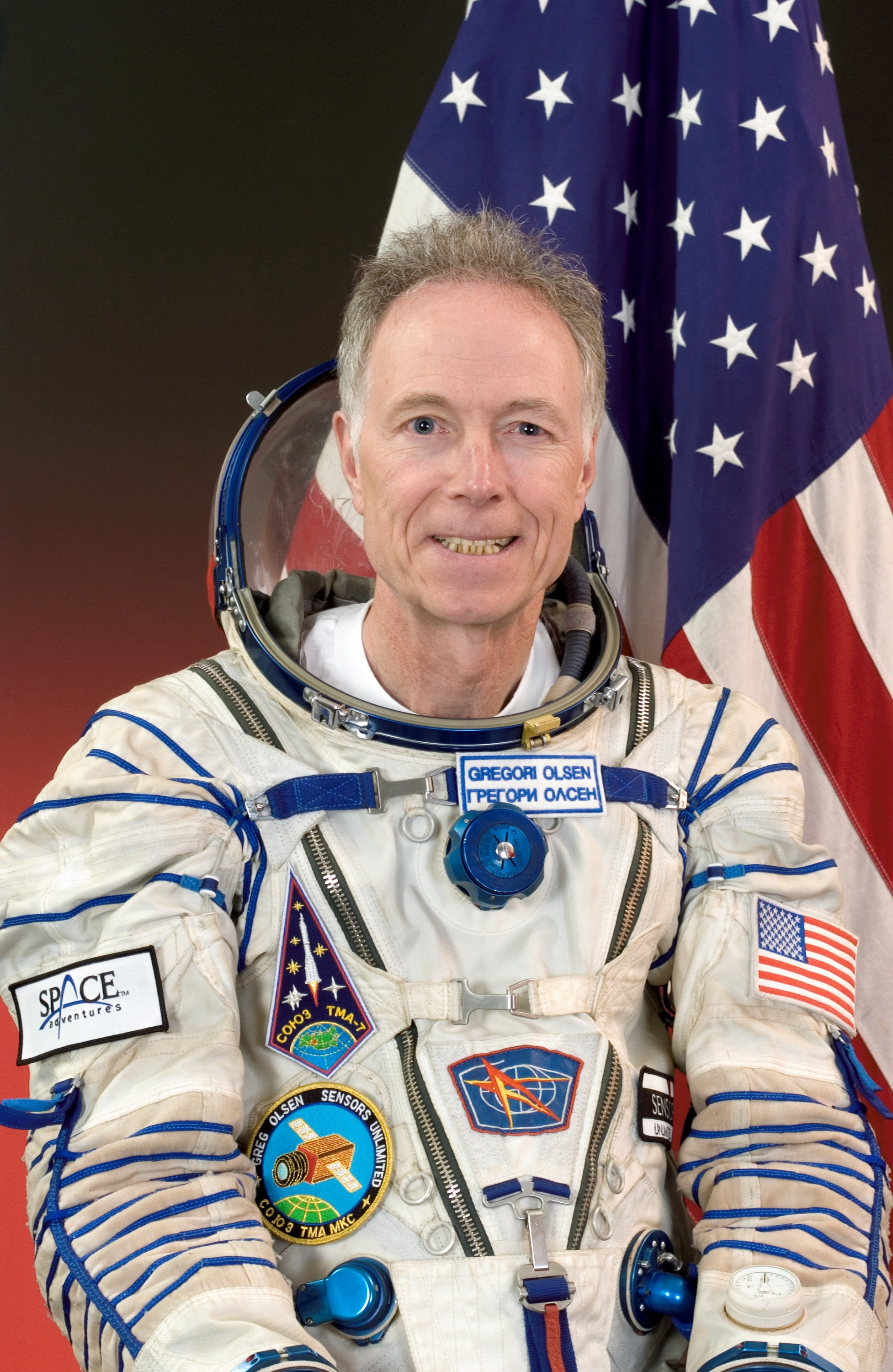 Greg Olsen, Soyuz Spaceflight Participant, attired in a Russian Sokol suit, takes a break from a training session in Star City, Russia to pose for a portrait.